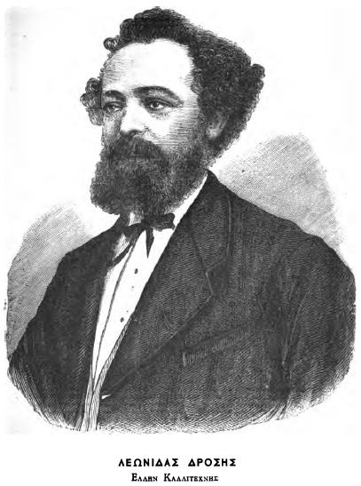 Poikilē stoa: ethnikē eikonographēnenē epetēris ... Etos 1-16, 1881-1914 (1882) Author: Ioannes A. Arsenēs , Michael A . Raphaelobits Volume: 3-4 Publisher: Estia Year: 1882 Possible copyright status: NOT_IN_COPYRIGHT Language: Greek Digitizing sponsor: Google Book from the collections of: Harvard University Collection: americana